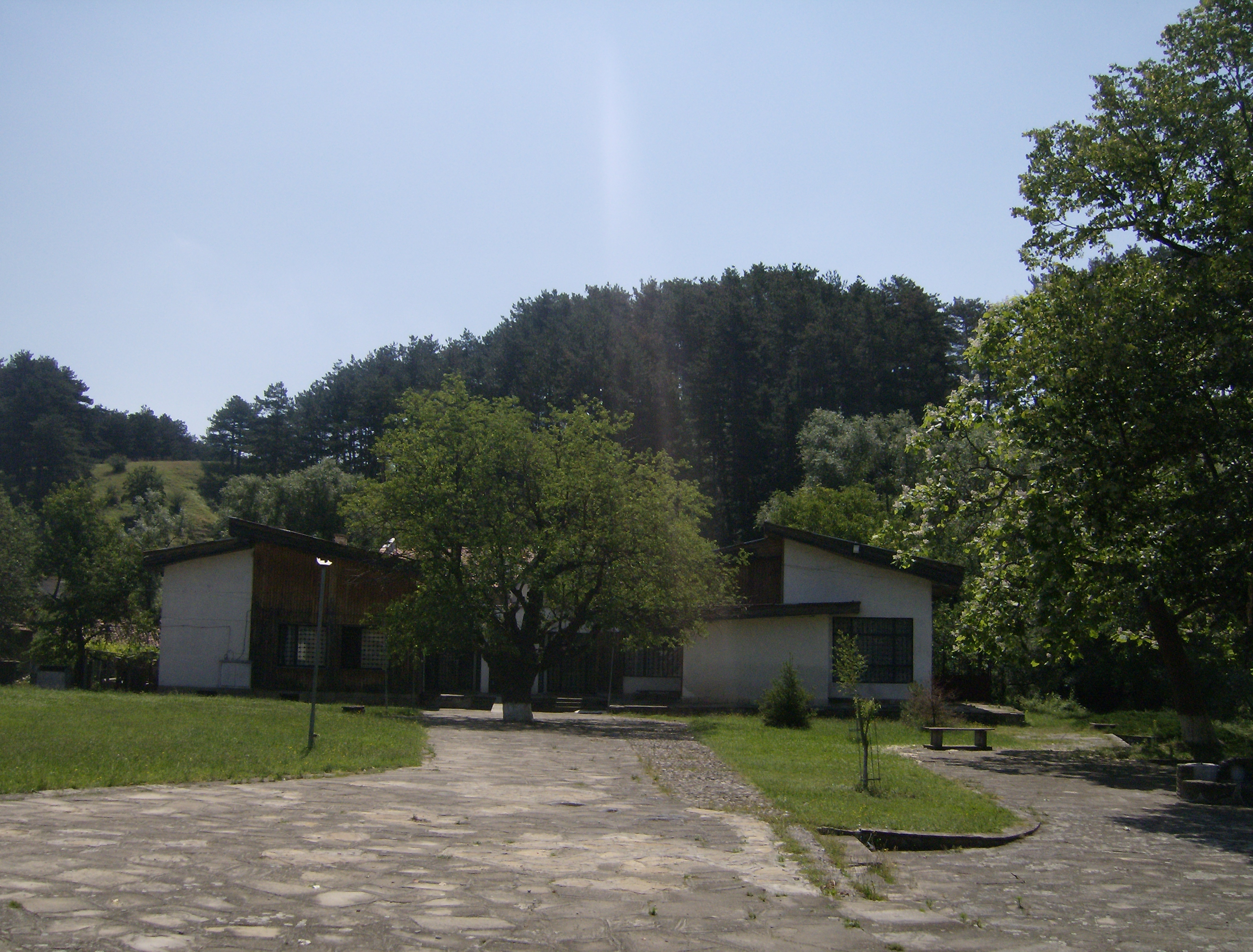 Varbitsa park